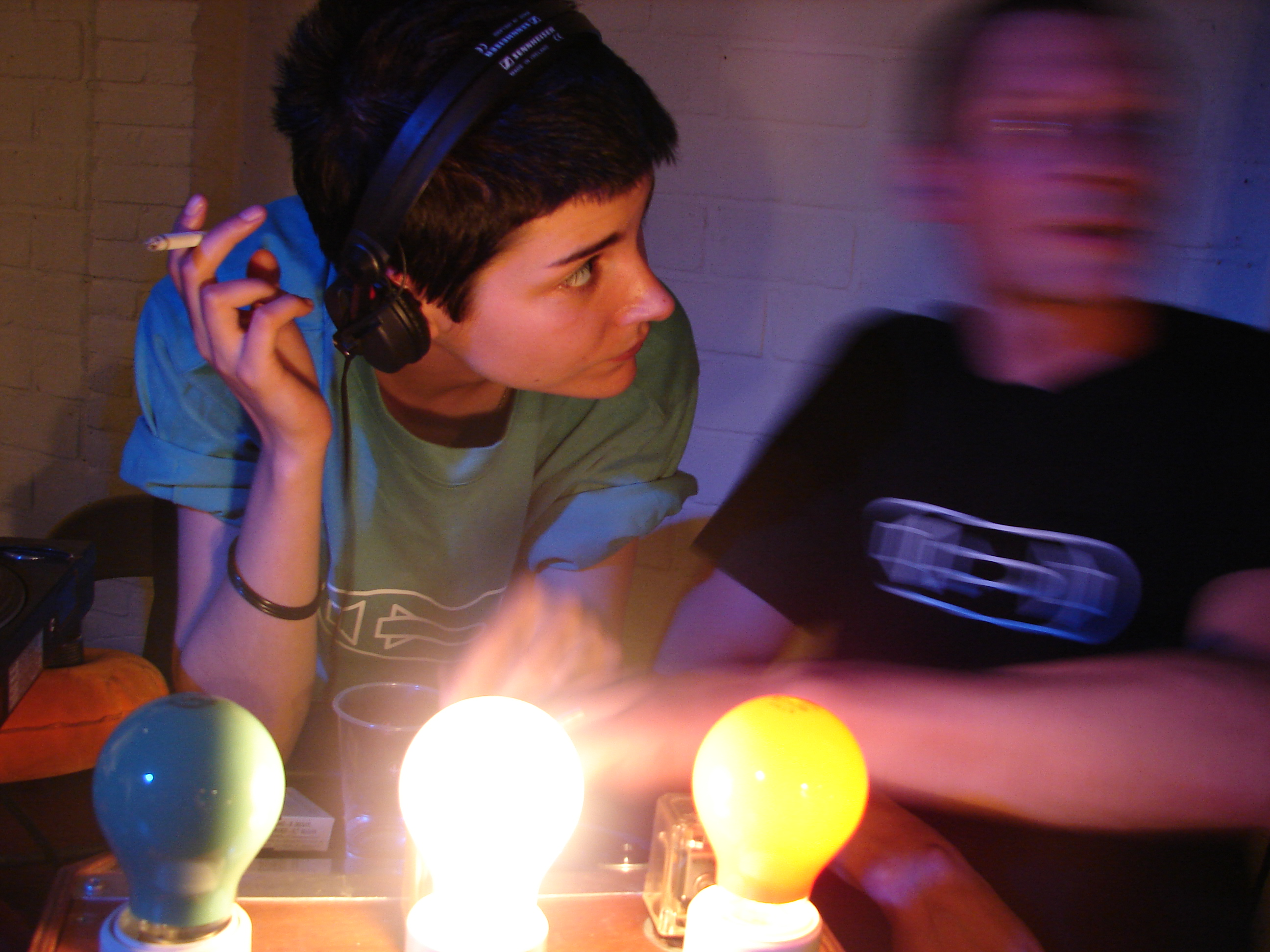 The Georgian electronic musician Natalie "Tusia" Beridze and German producer Thomas Brinkmann.